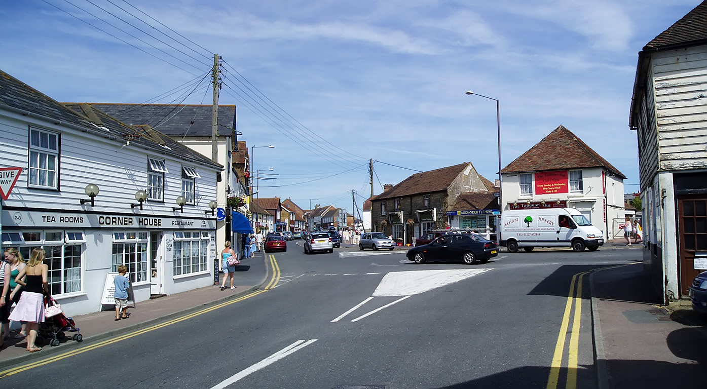 A view of the High Street at Dymchurch, Kent, UK, looking from Eastbridge Road.